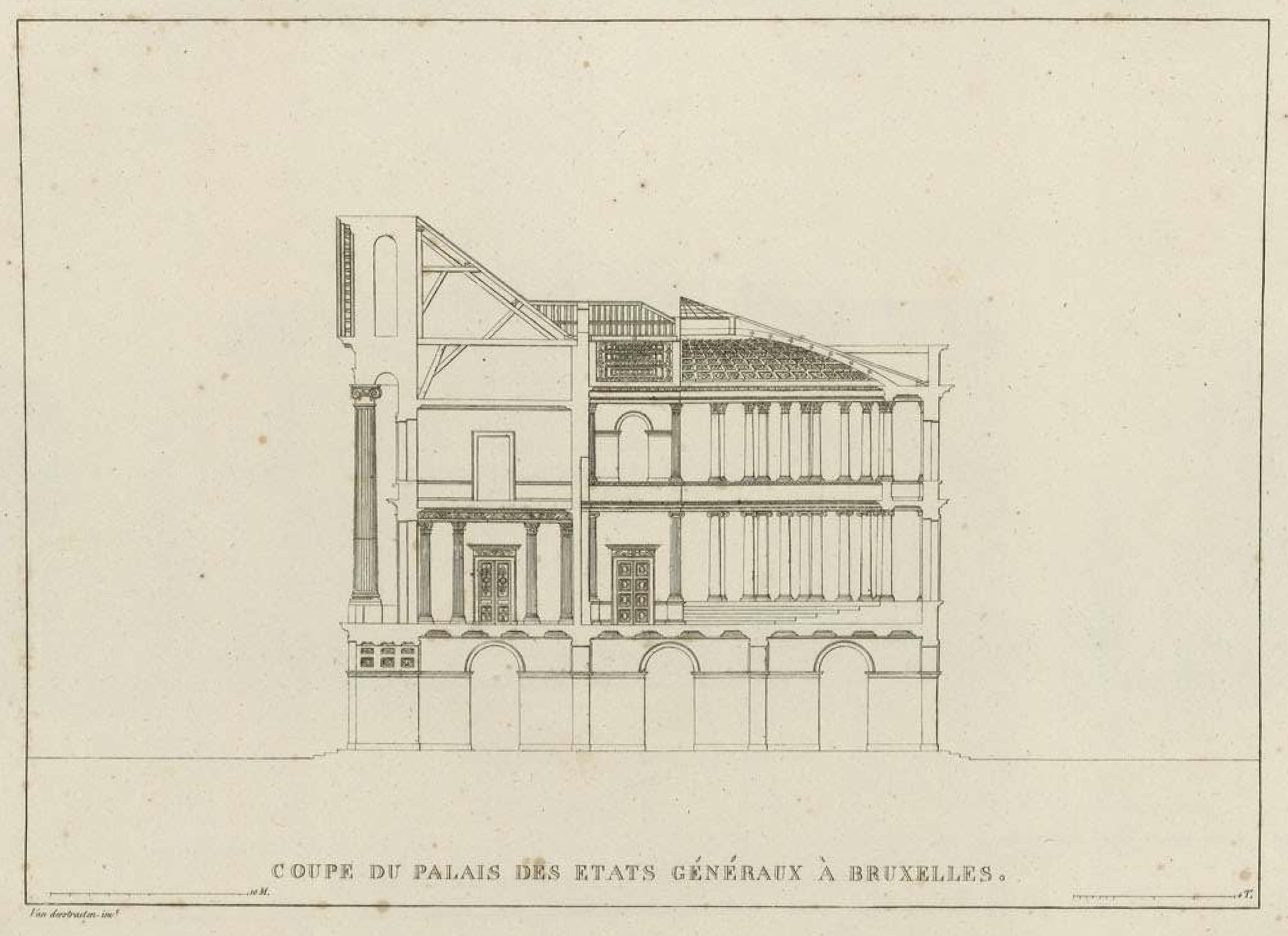 Pierre-Jacques Goetghebuer (1788-1866) became professor of architecture in Ghent, after his studies for architectural drawing at the local art academy. From 1817 he started working on a publication with images of the most remarkable buildings from the newly created United Kingdom of the Netherlands. This book would include both old and contemporary, neoclassicist buildings. Most of the 120 plates depict buildings from the Southern Netherlands, especially Brussels and Ghent. Goetghebuer executed the engravings based upon his own sketches or designs by the architects themselves. Other artists finished the engravings in aquatint. Goetghebuer published this collection of engravings in 1827 with publisher André Benoît II Steven, and he dedicated them to King William I. Many buildings in this book have since disappeared, hence its significant historical importance. Also published in Dutch, with the title Verzameling der merkwaardigste gebouwen in het Koningrijk der Nederlanden.